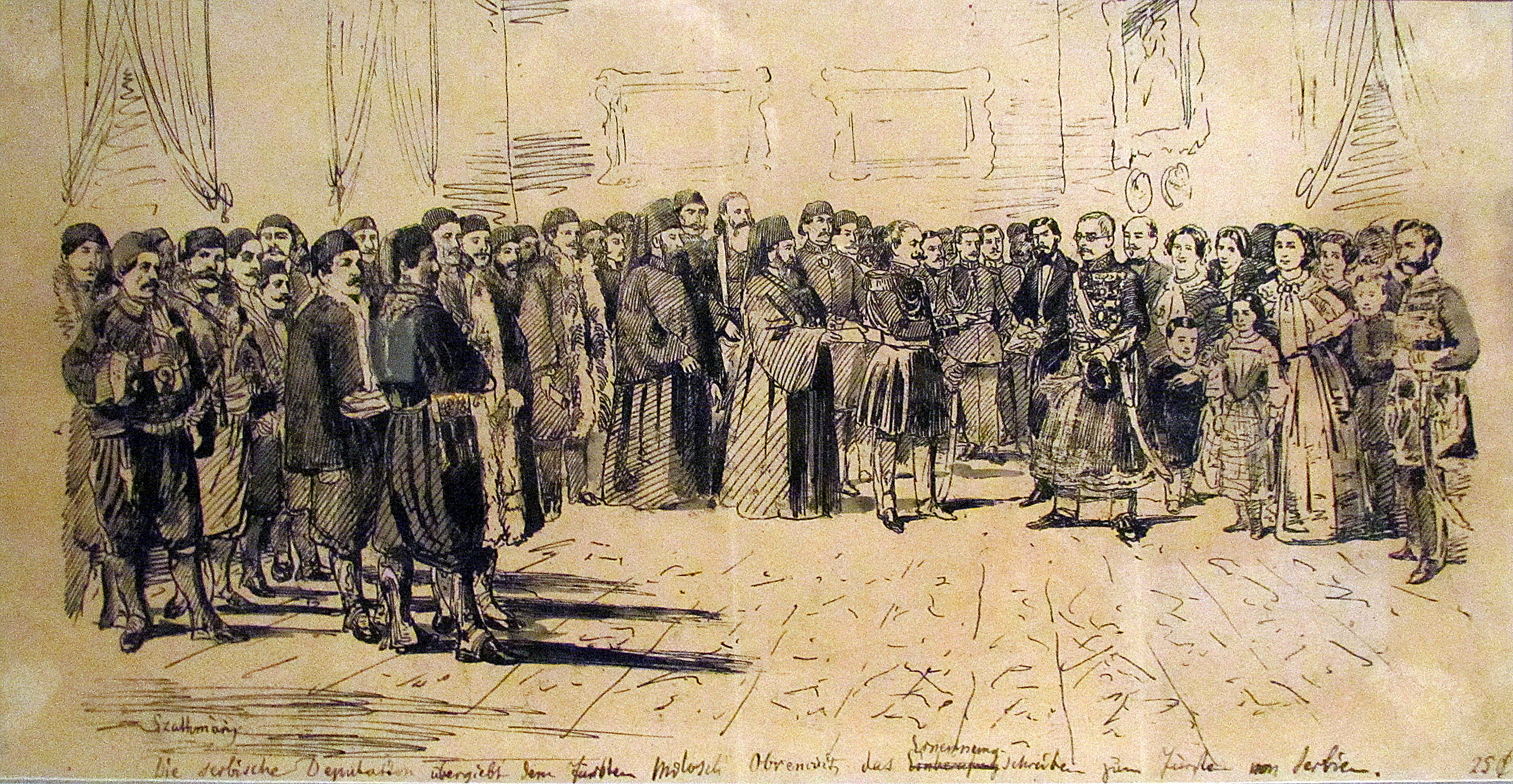 Karoly Pap Szathmary, Serbian Deputation Requesting Miloš to Return to the Throne, 1859, ink on paper, National Museum of Serbia